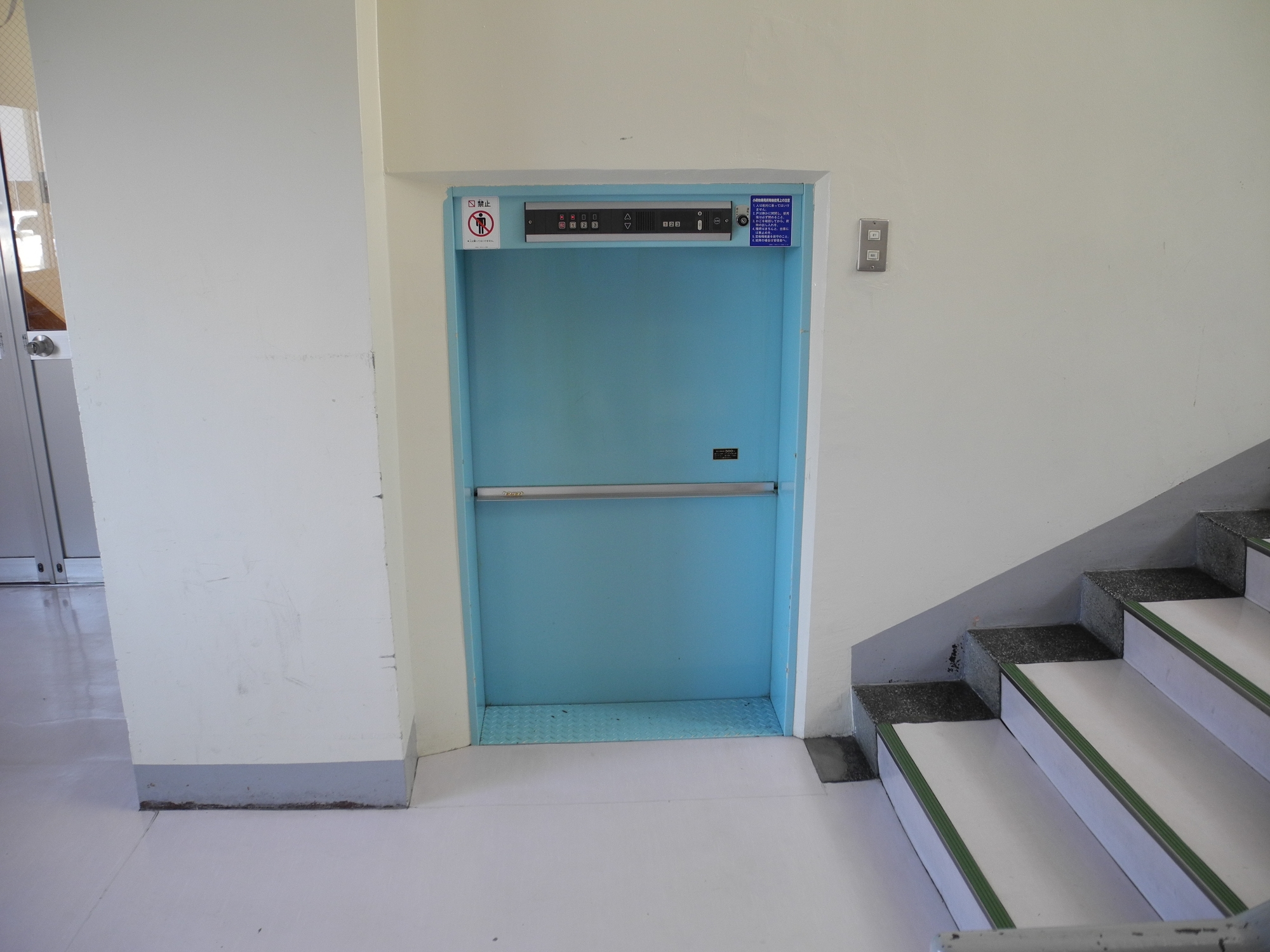 1st floor dumbwaiter. Kawauchi Elementary School. Fushimi, Chokai, Yurihonjo, Akita, Japan.